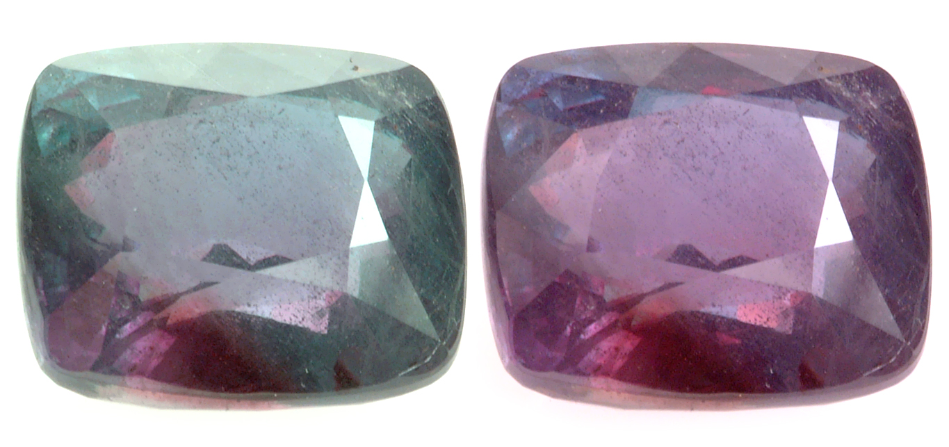 Alexandrite Cushion, 26.75 cts. Bluish green in daylight and purple red under incandescent light, alexandrites this large are extremely rare. Labels First row: Alexandrite, Chrysoberyl